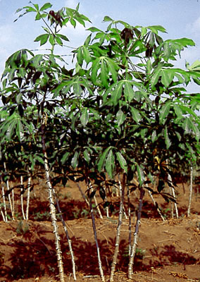 Manioc (cassava) plants growing in Burundi, Rwanda and Democratic Republic of Congo.